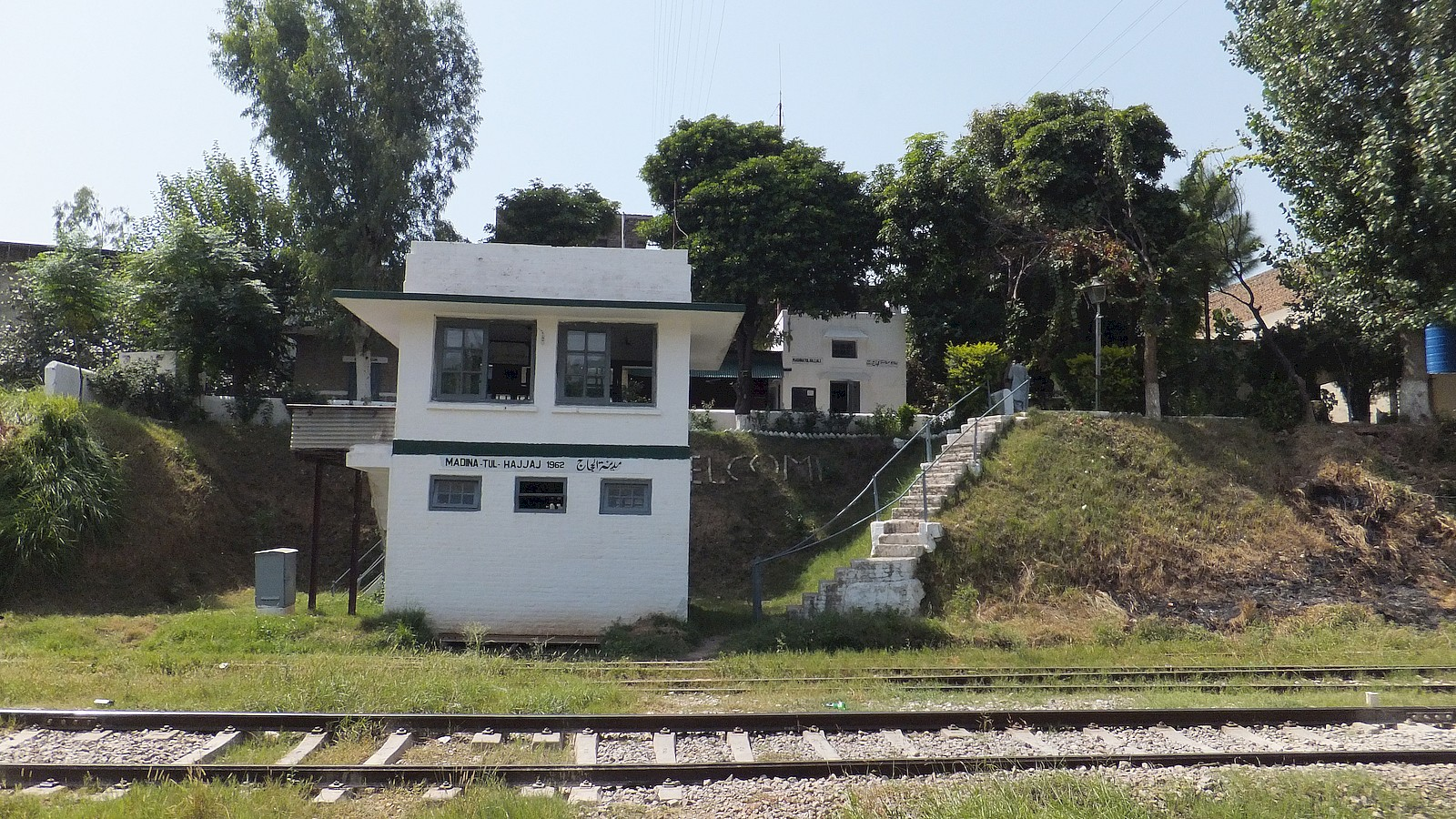 A view of Madina tul Hajjaj railway station from across the tracks